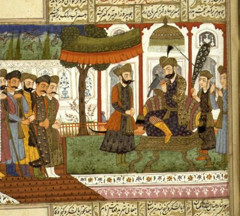 Hormizd III is crowned shah.